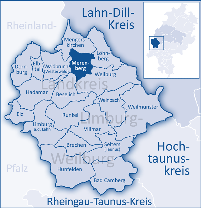 The map shows a district in the area of Limburg-Weilburg